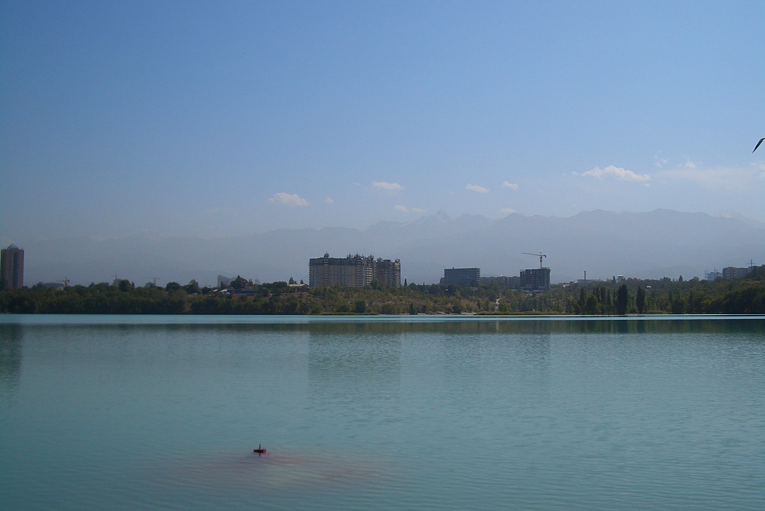 Sayran (Sairan) Lake in Almaty